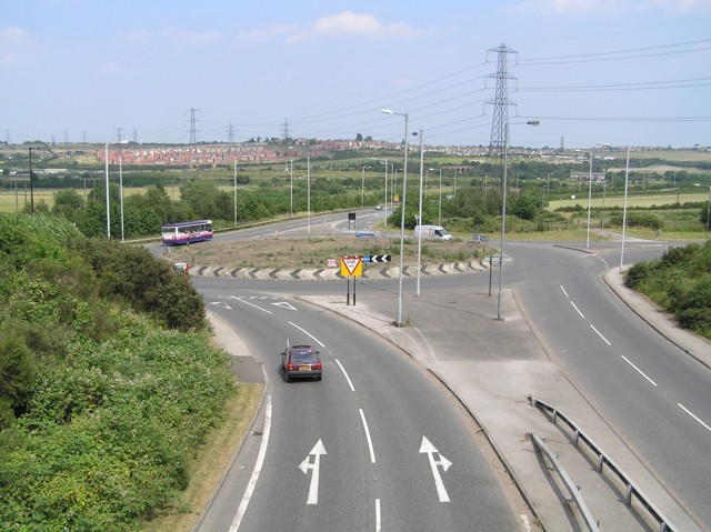 View towards Aston. From the same location as 194450, this is the opposite direction, showing the roundabout at the bottom of Beighton Road. Looking NE, the road heads up to the A57 Aston Bypass. The housing estate left of centre is the one alongside the A57 as you come up from Fence.